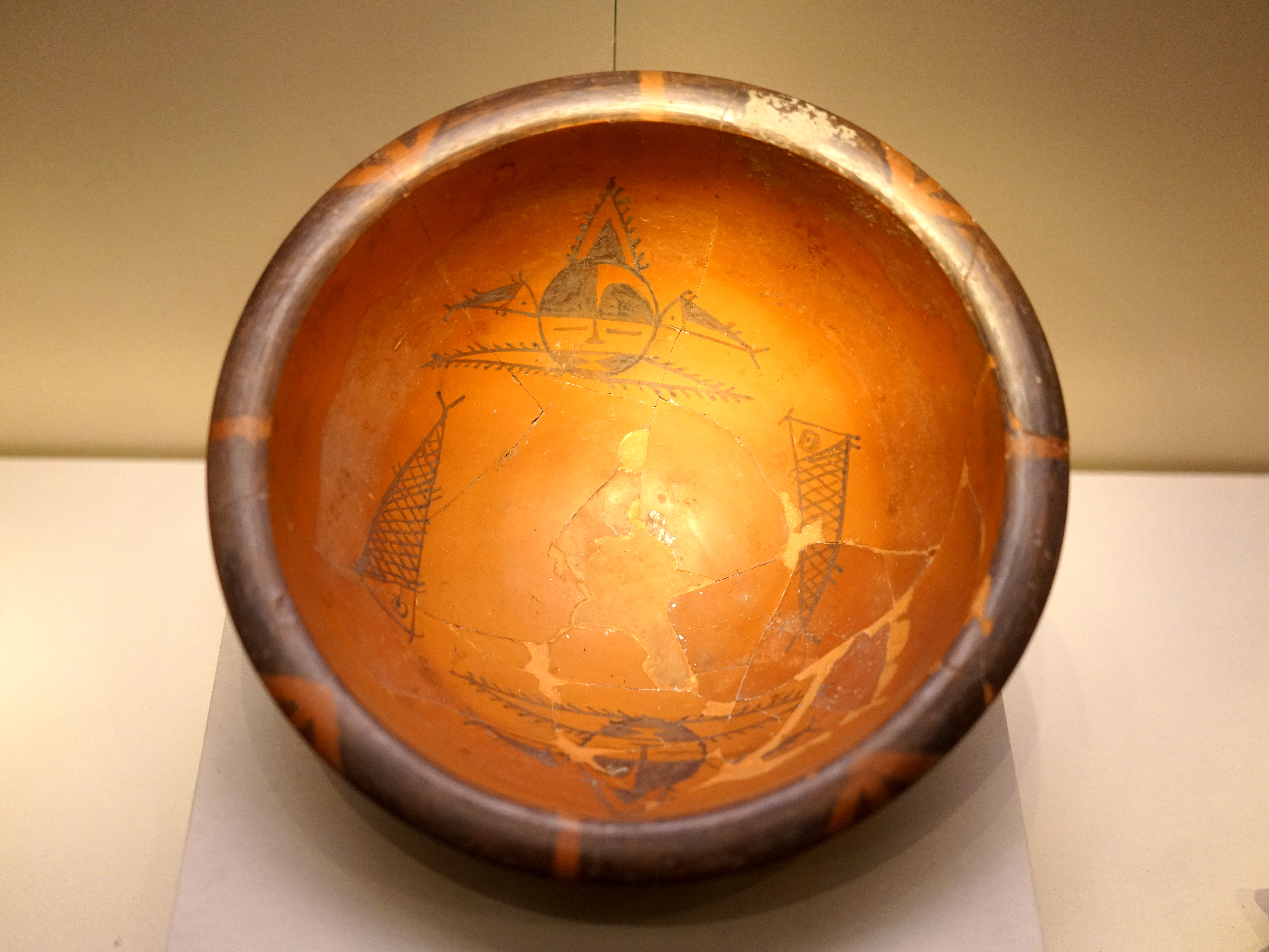 Painted Pottery Basin with Human Face and Fish Designs. Yangshao Culture. Unearthed at Banpo, Xi'an, Shaanxi Province, 1955. In the Yangshao Culture, a dead child's body was burried in a funerary urn and covered with a pottery basin.